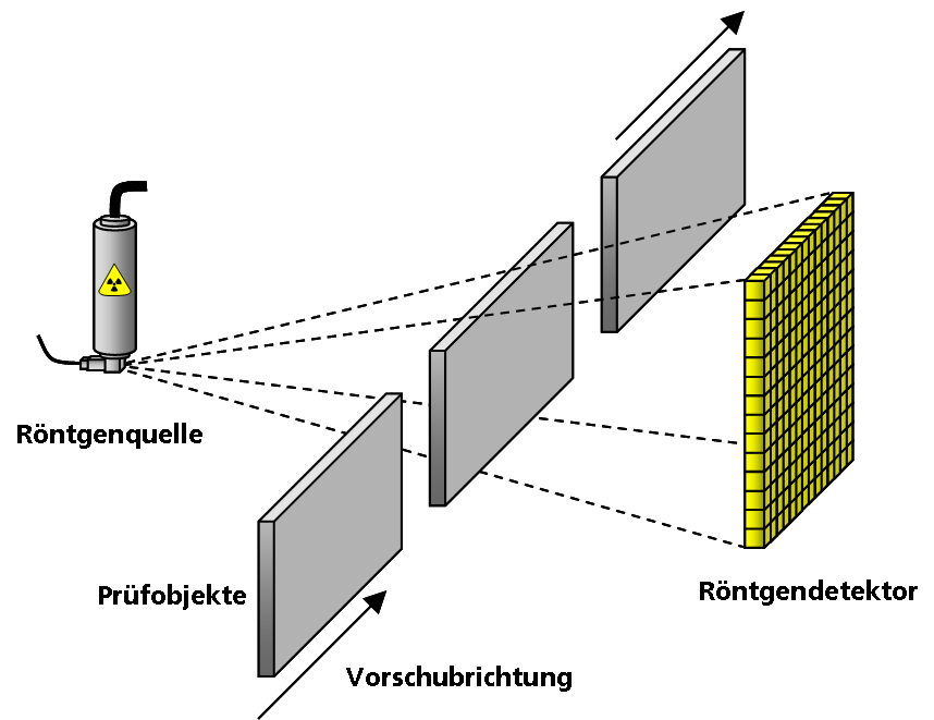 Schematic representation of a translatorial Laminography setup.